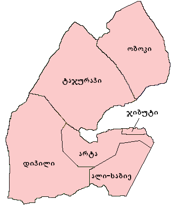 Regions of Djibouti